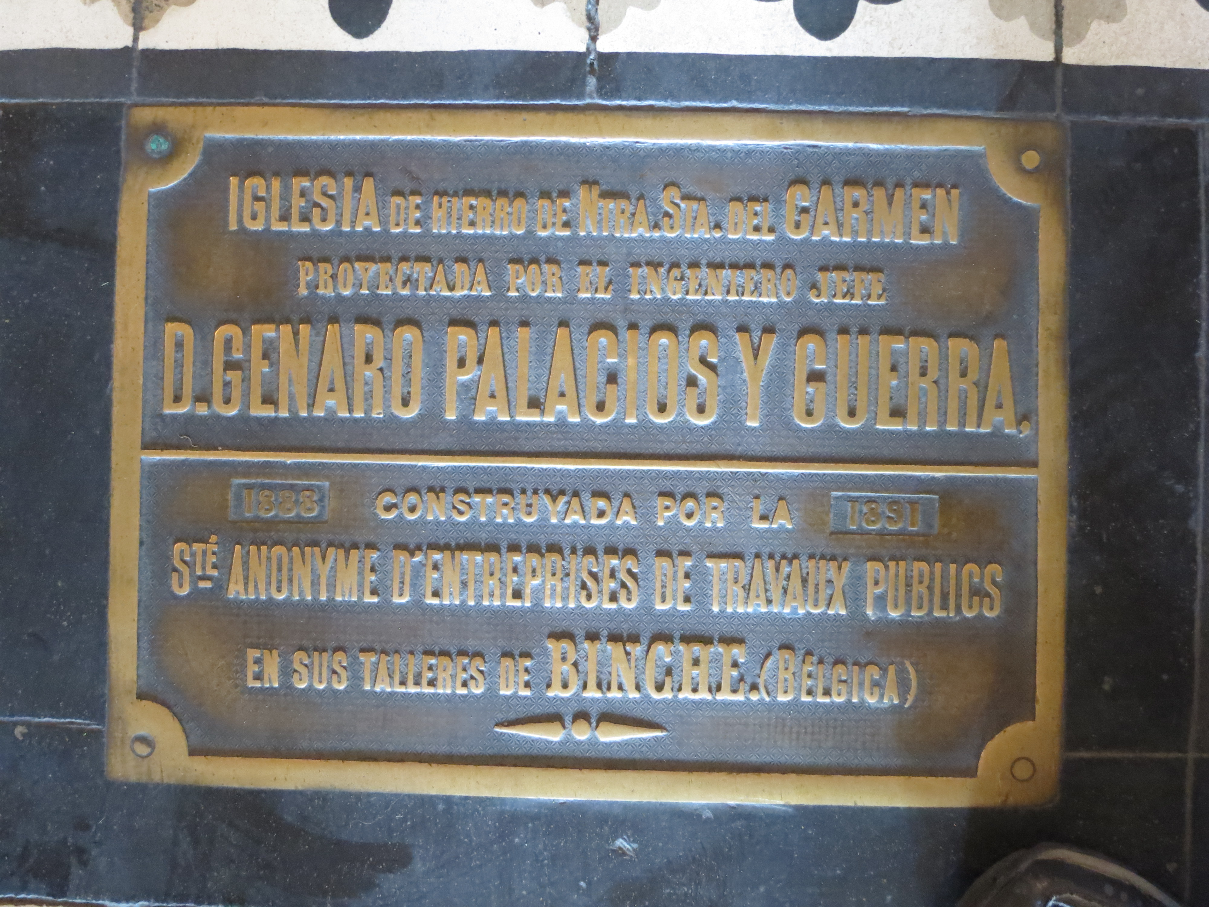 Plaque set at the floor of the San Sebastian Basilica near the main entrance honoring the main architect of the church, Genaro Palacios.